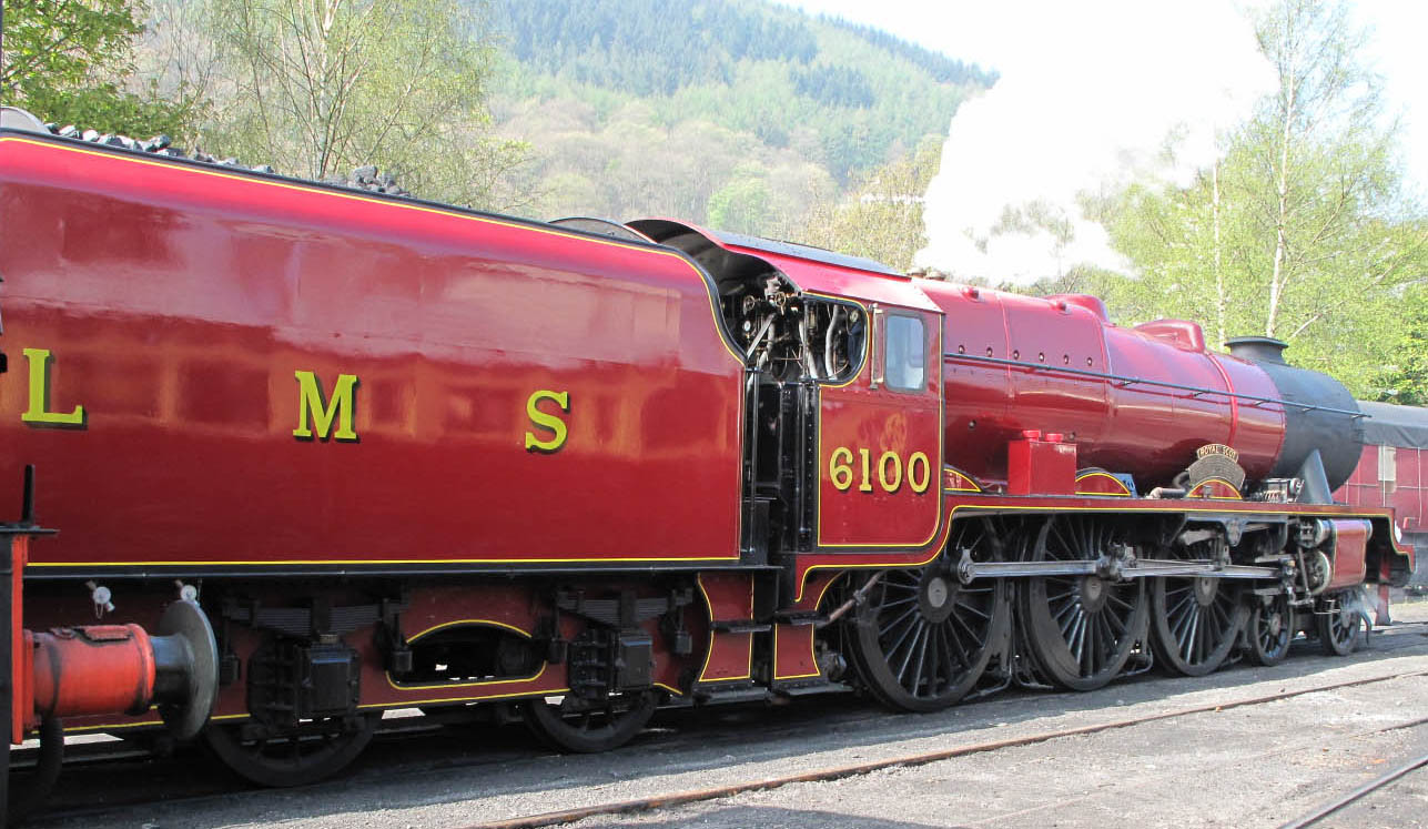 LMSR No. 6100 Royal Scot at Llangollen